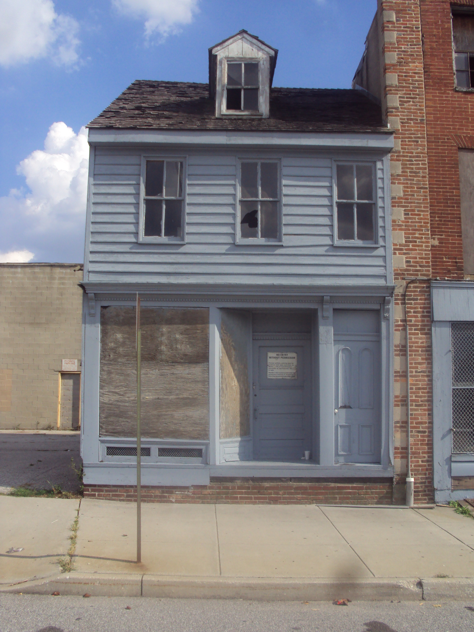 Null House, 1037 Hillen St. East